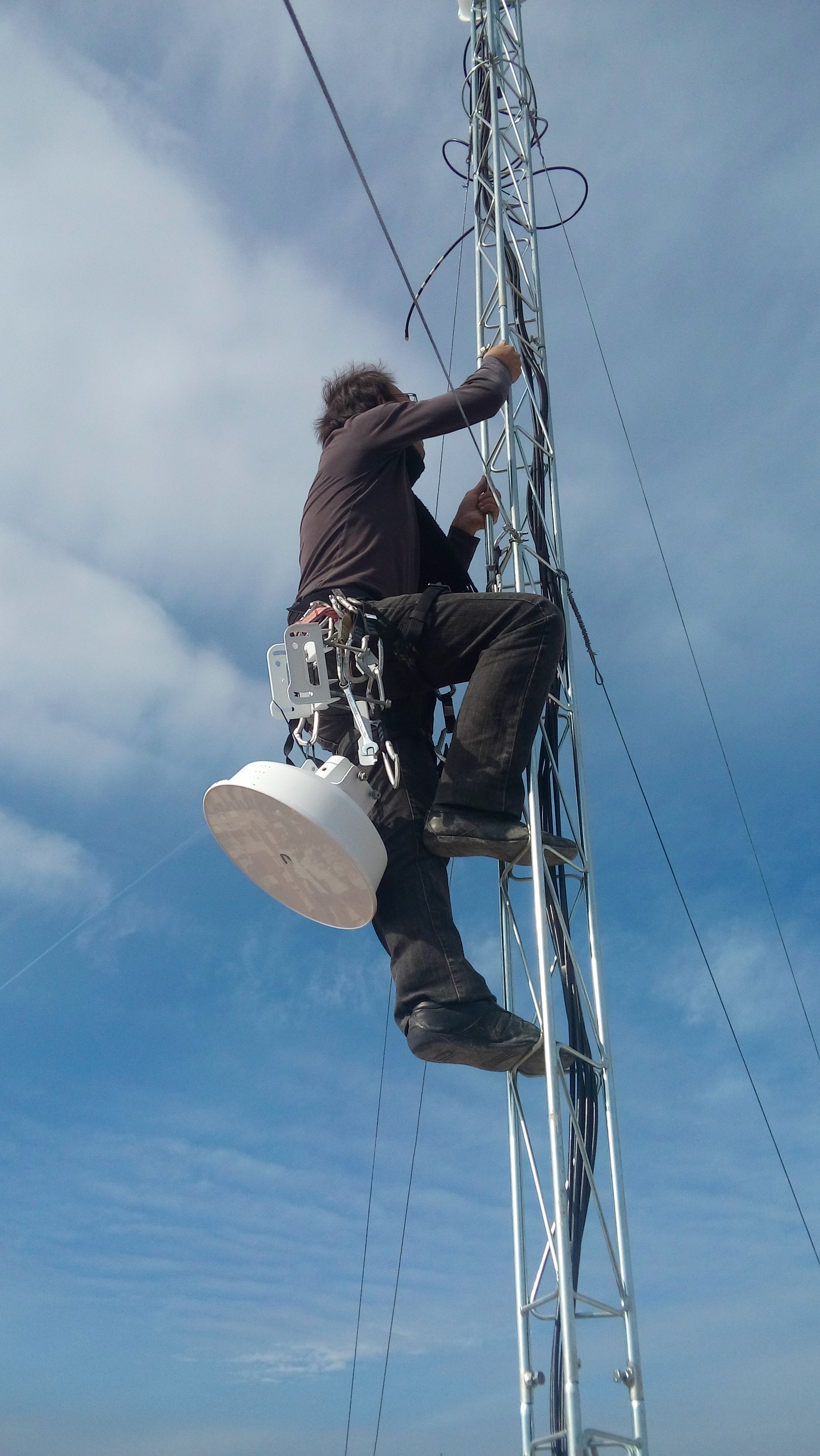 Installation of a "supernode" of 's network in the neighbourhood of Sant Pere i Sant Pau in Tarragona.